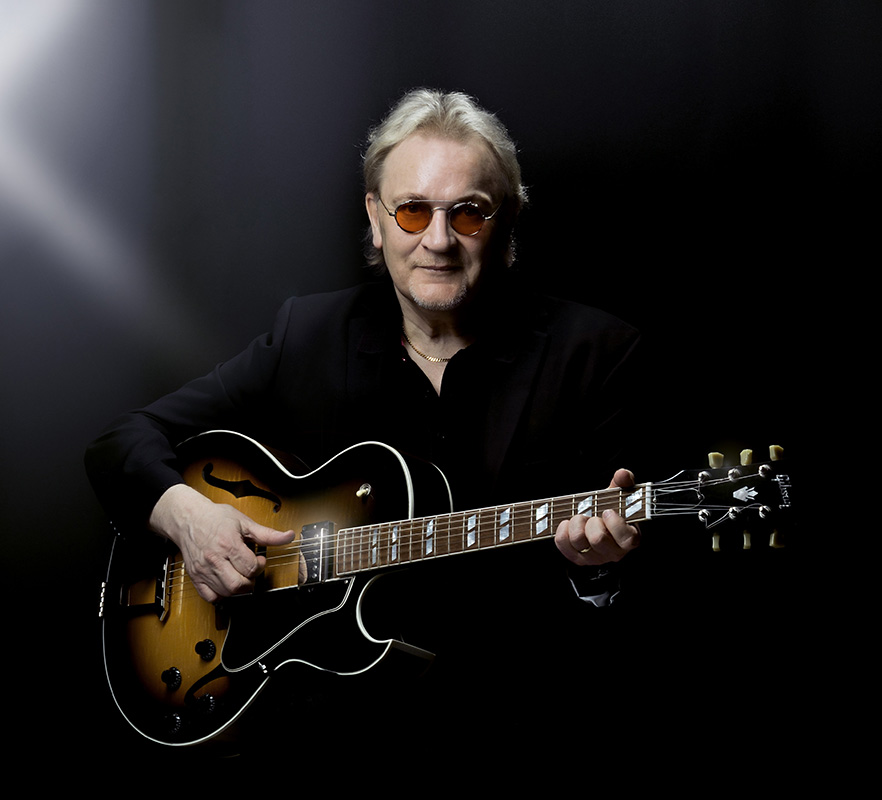 Photo of Herbert Guðmundsson by Arnold Björnsson